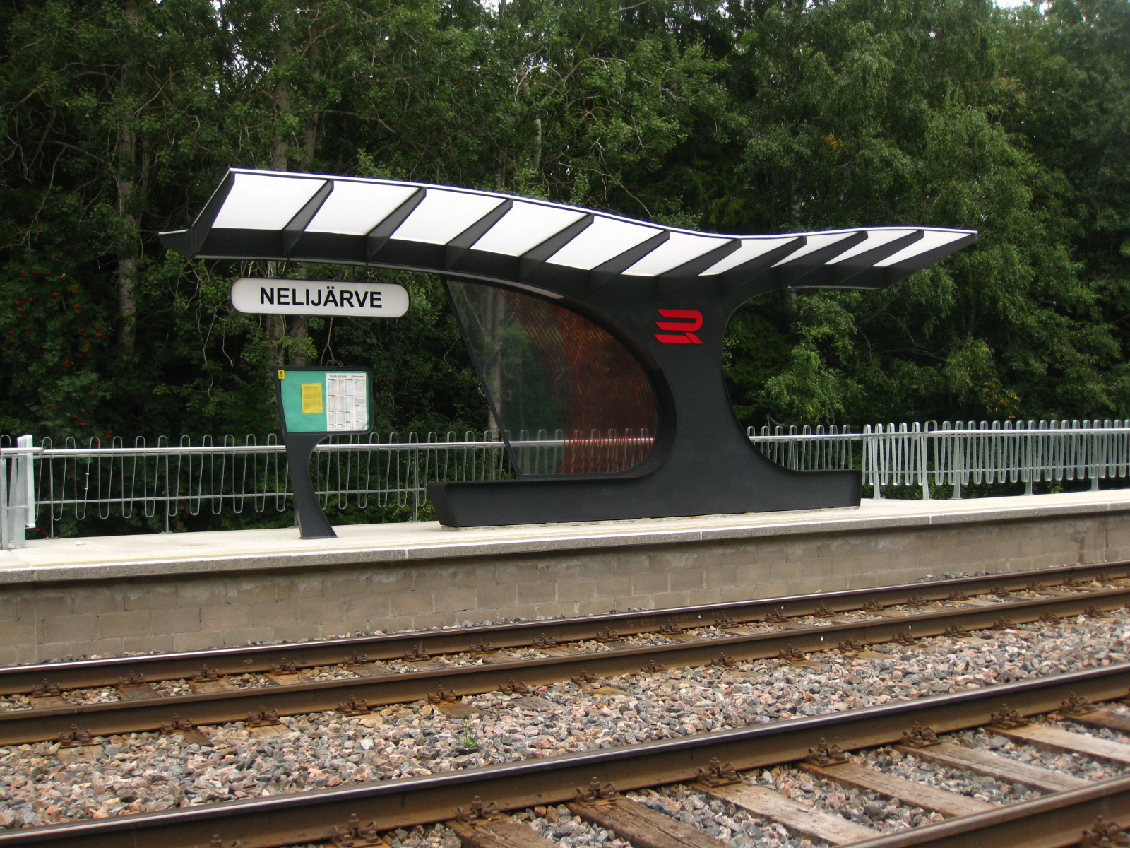 Nelijärve Railway station